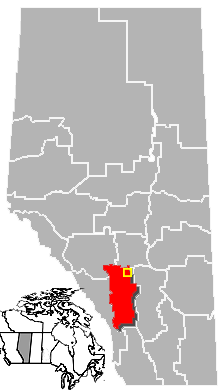 Location of Olds, Census Division No. 6, Albera